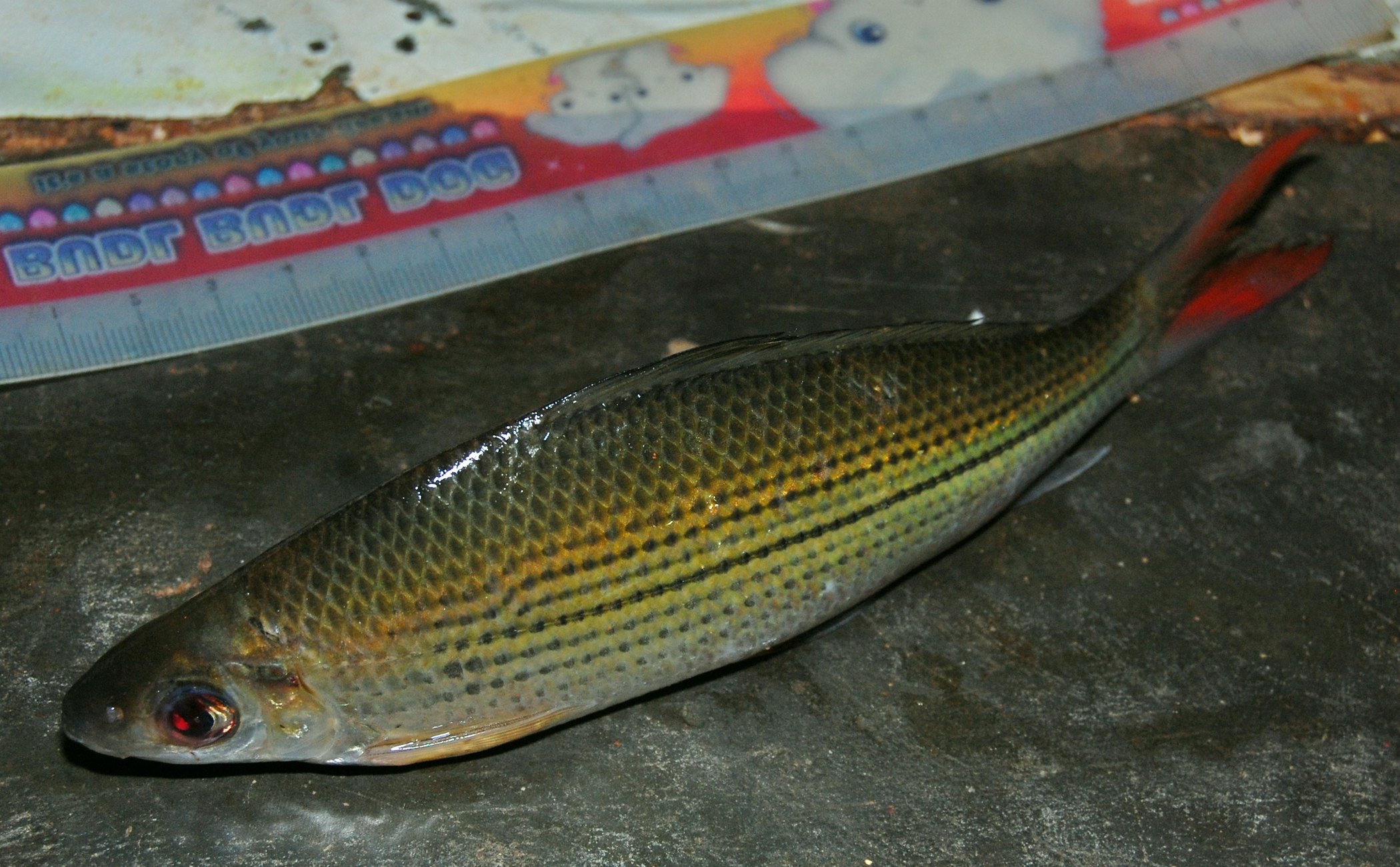 Labiobarbus fasciatus, 144 mm SL (standard length). From Kawan Batu River (tributary of Mentaya River), Upper Seruyan, Central Kalimantan, Indonesia.